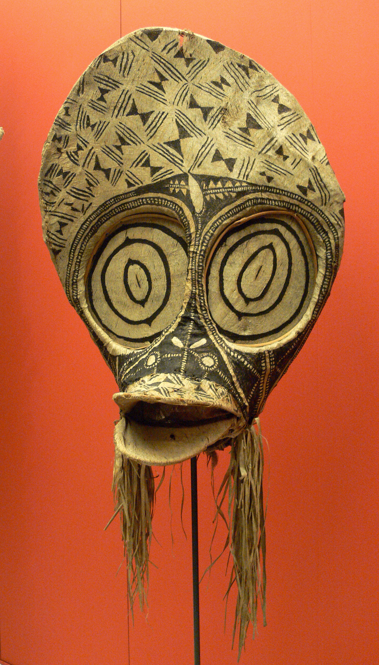 Mask of the Baining people on the Gazelle Peninsula of New Britain, Papua New Guinea (South Seas Department, Ethnological Museum of Berlin, Germany, Umlauf collection, 1915)